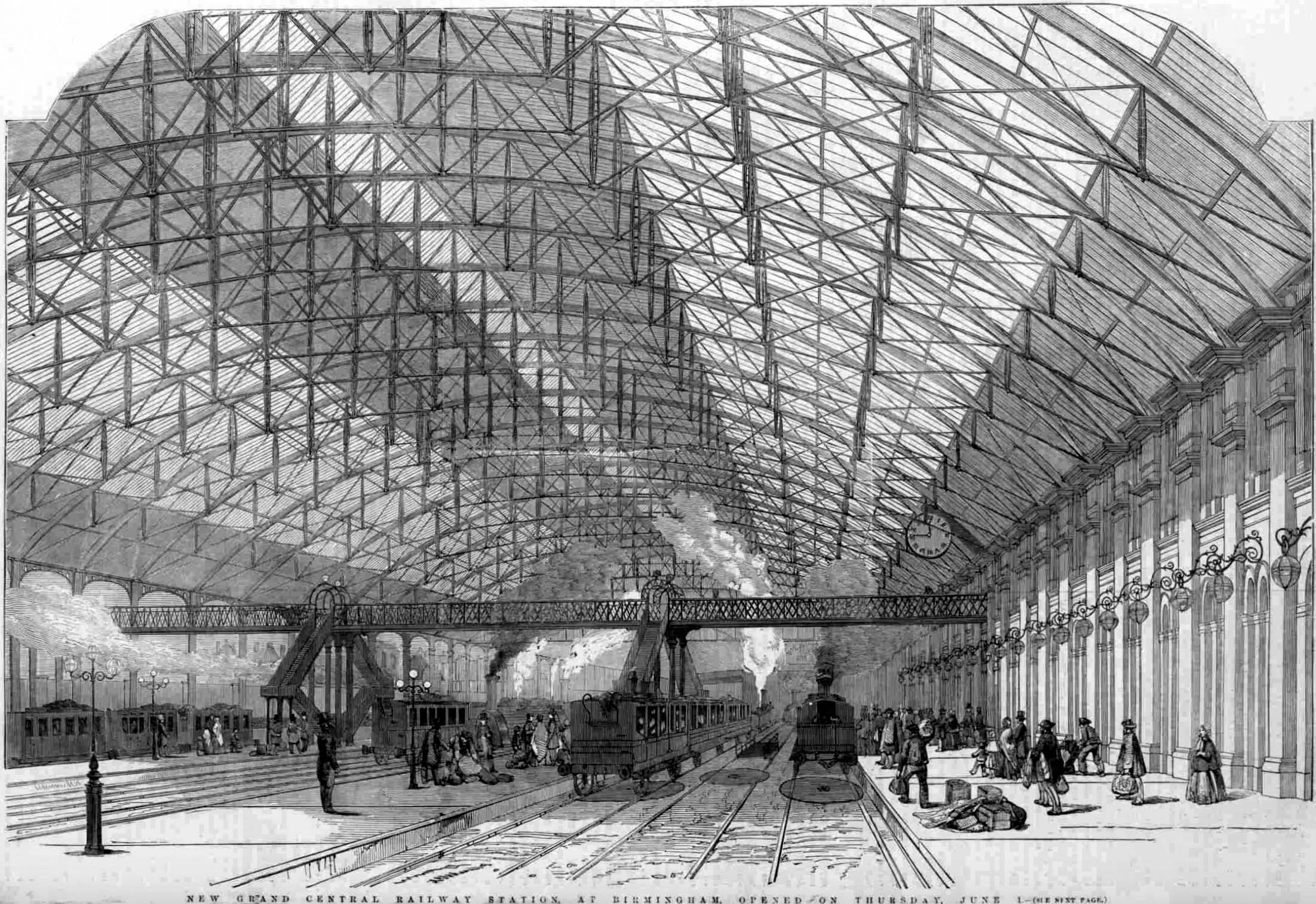 From the Illustrated London News 3 June 1854